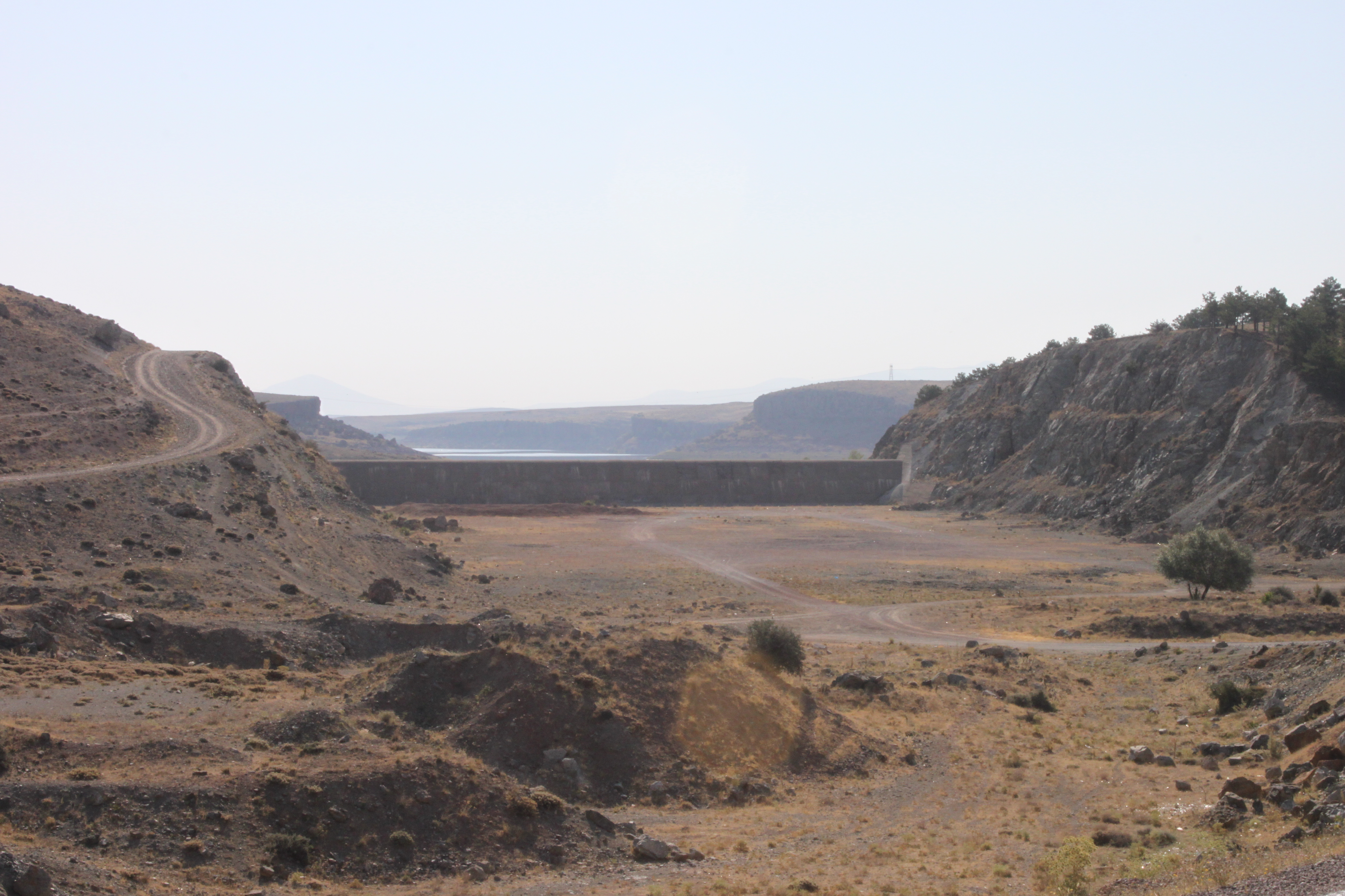 Dam of the Mamasın-Reservoir (Mamasın Barajı)